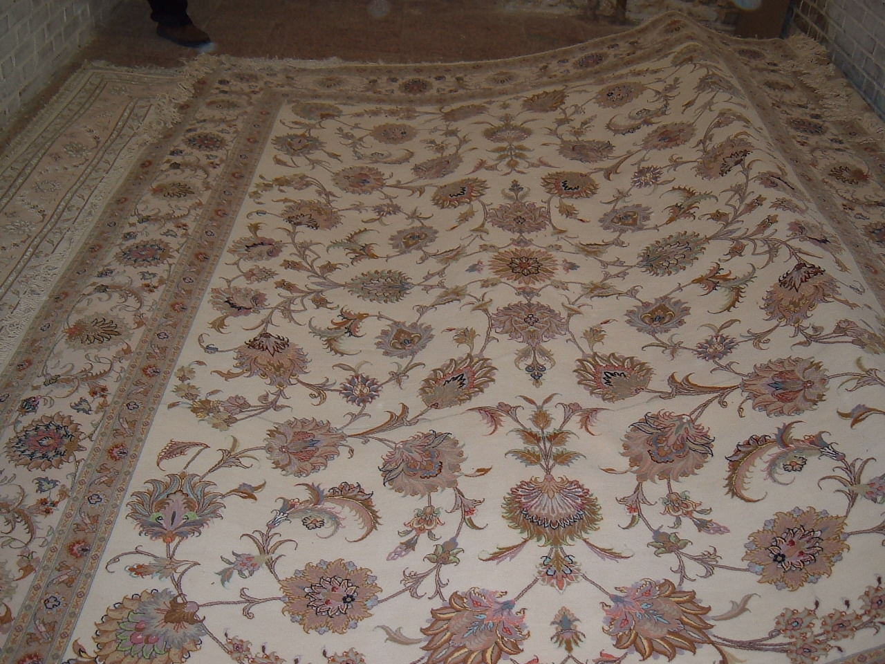 A sample of Tabriz rug.